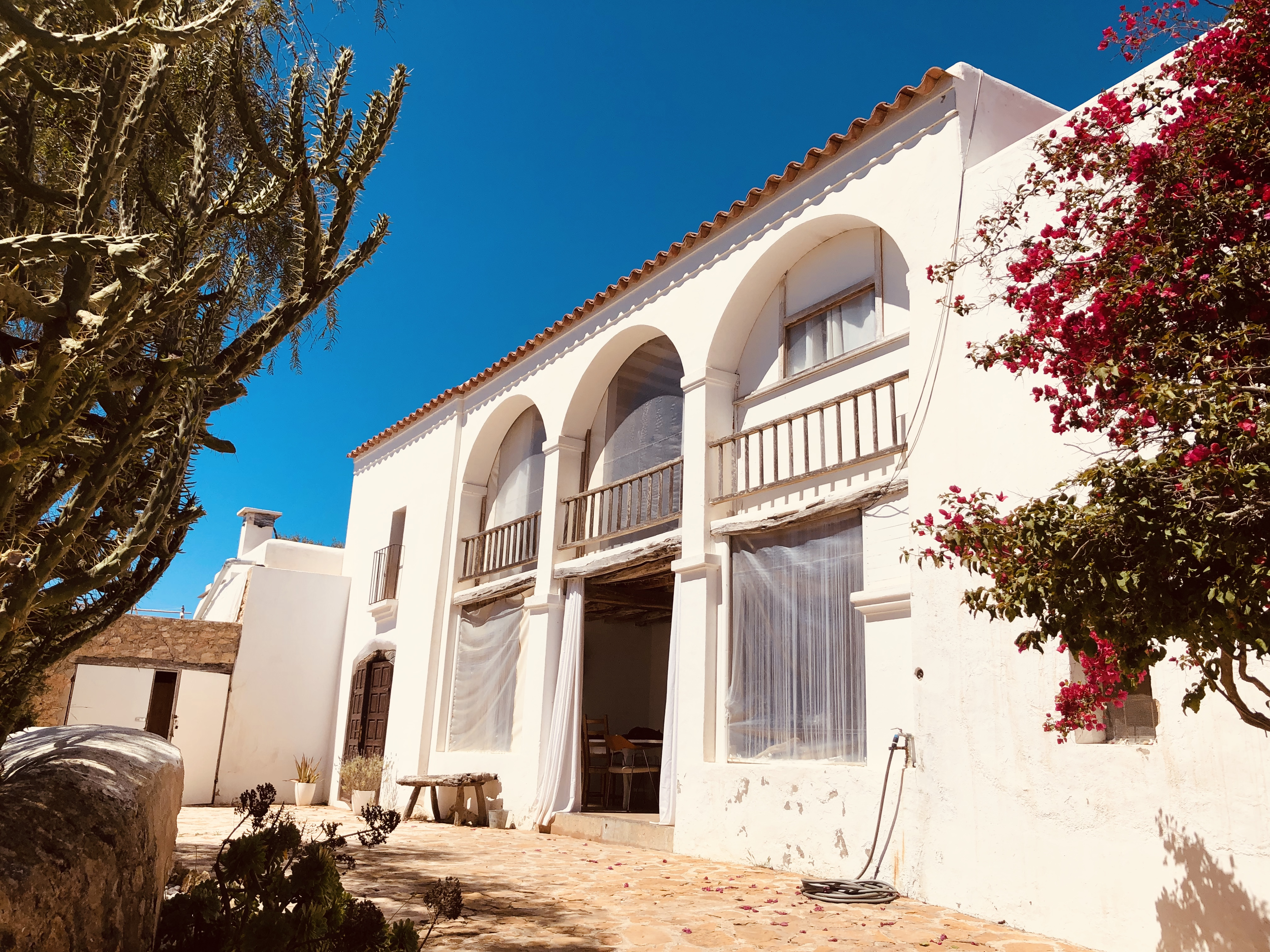 This is a front side photo of the entrance of Sonic Vista Studios' Villa